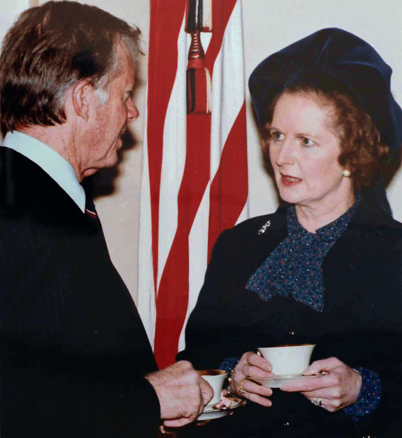 Margaret Thatcher visiting President Jimmy Carter at the White House